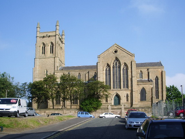 Holy Trinity parish church, Blackburn, Lancashire, seen from the southeast